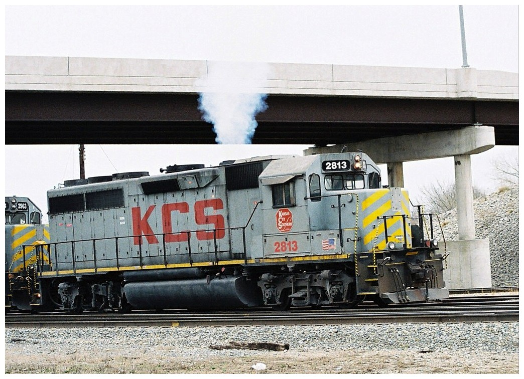 Kansas City Southern Railway #2813, EMD GP40-2